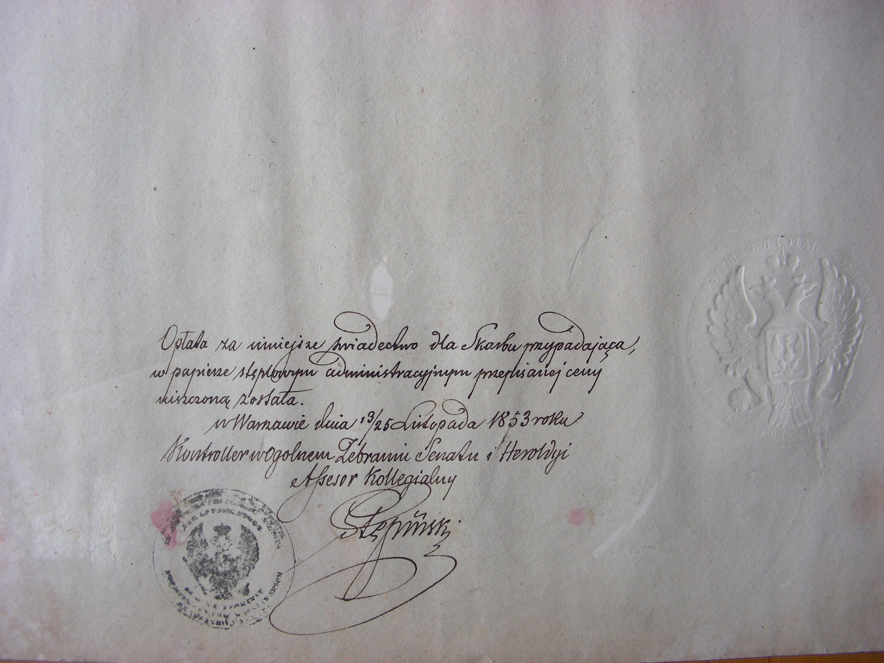 Noble certificate given in 1853 in Warsaw (Poland) to Rajmund Masłowski (born 1825 in Warsaw, died in 1897 in Radom, Poland) - reverse side